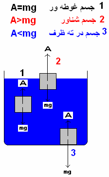 Archimedes test